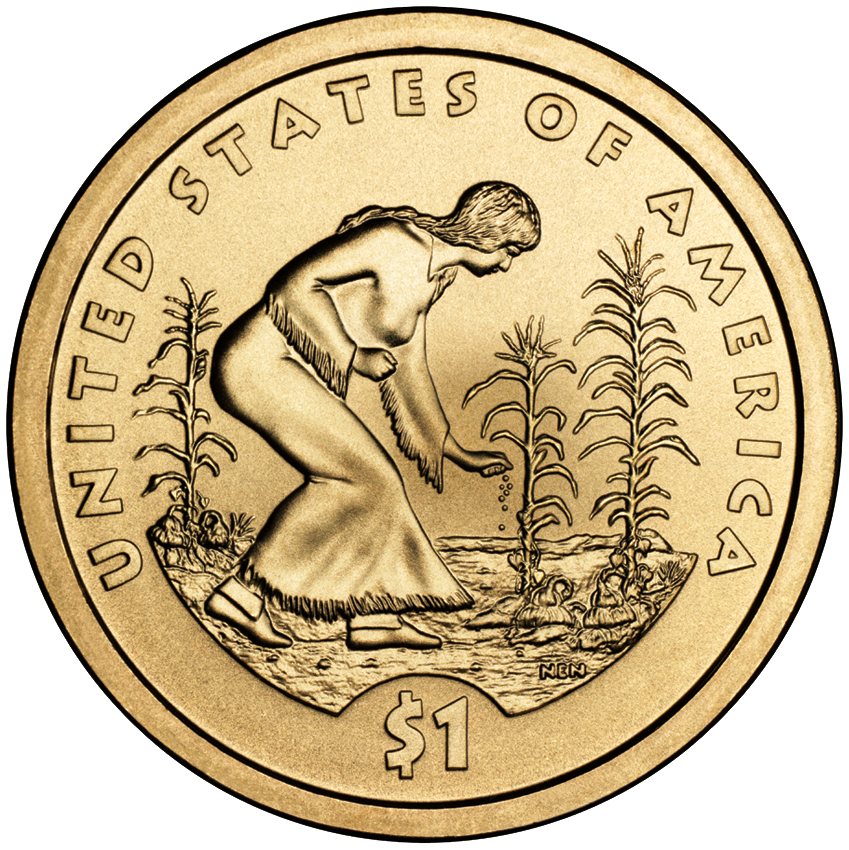 Three Sisters as featured on the reverse of the 2009 Native American U.S. dollar coin. 2009 reverse by Norman E. Nemeth.